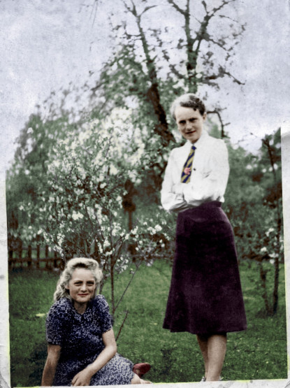 Lucyna Radziejowska z córką Anną, Photo: family archives.